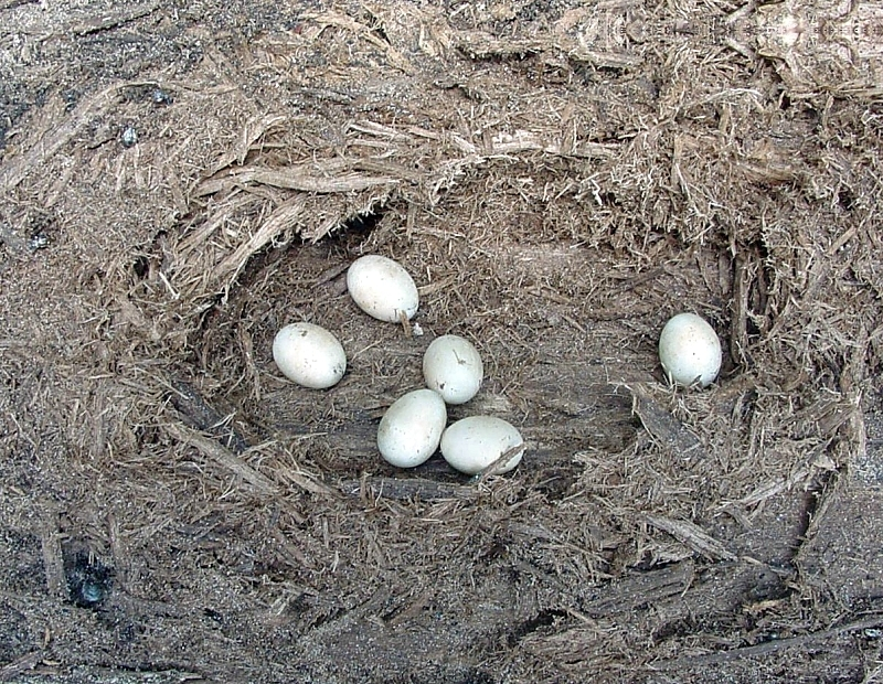 Southeastern five-lined Skink, Eumeces inexpectatus, South Illinois, Mississippi river